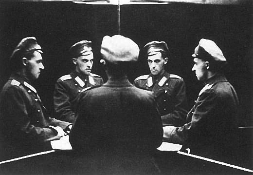 Miltiple self-portrait in mirrors, Saint Petersburg, 1915–1917. The picture was taken in the cab with mirrors; Witkiewicz in the officer's uniform of Pavlovsky Regiment.